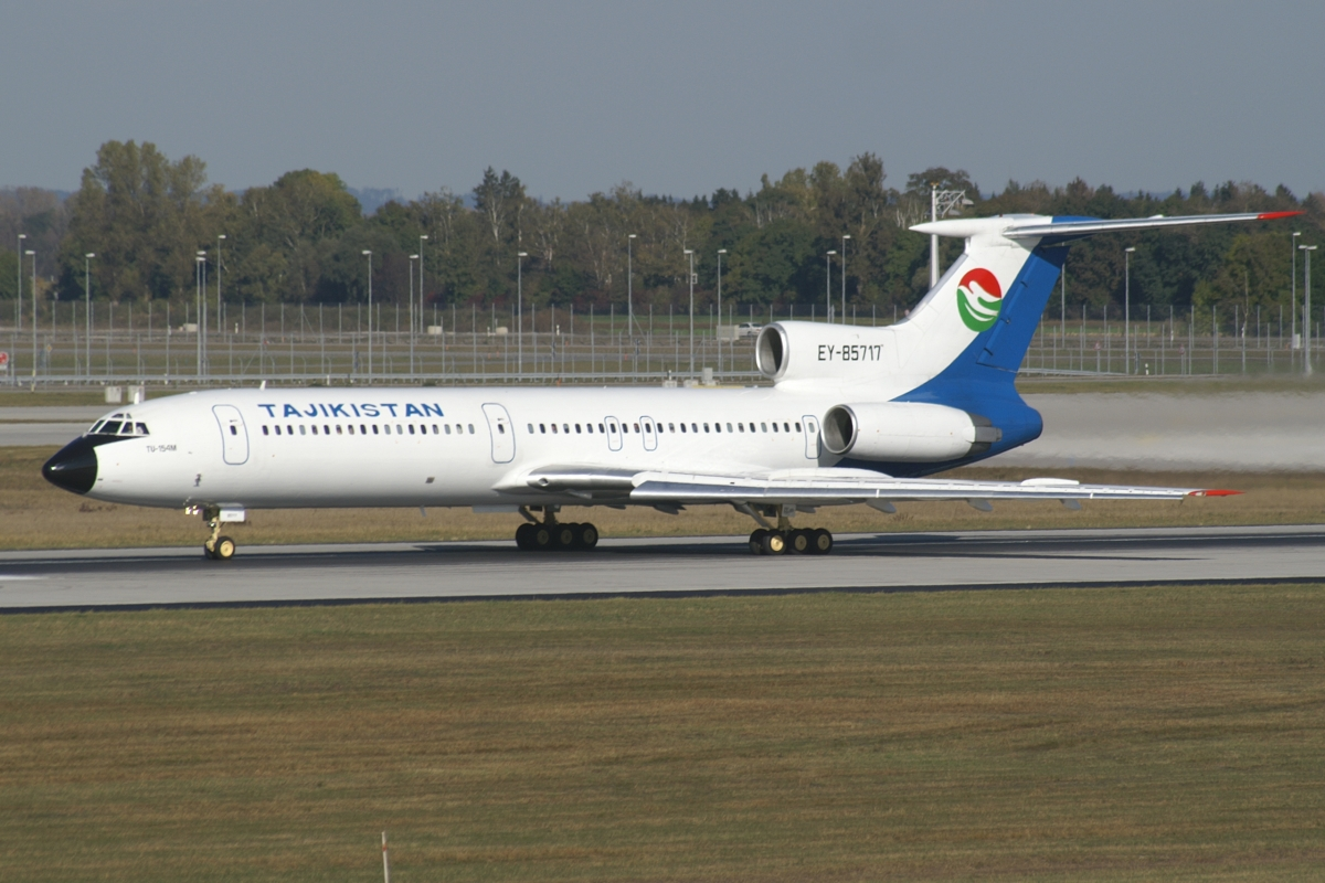 Tajikistan Airlines Tu-154 EY-85717 at Munich Airport